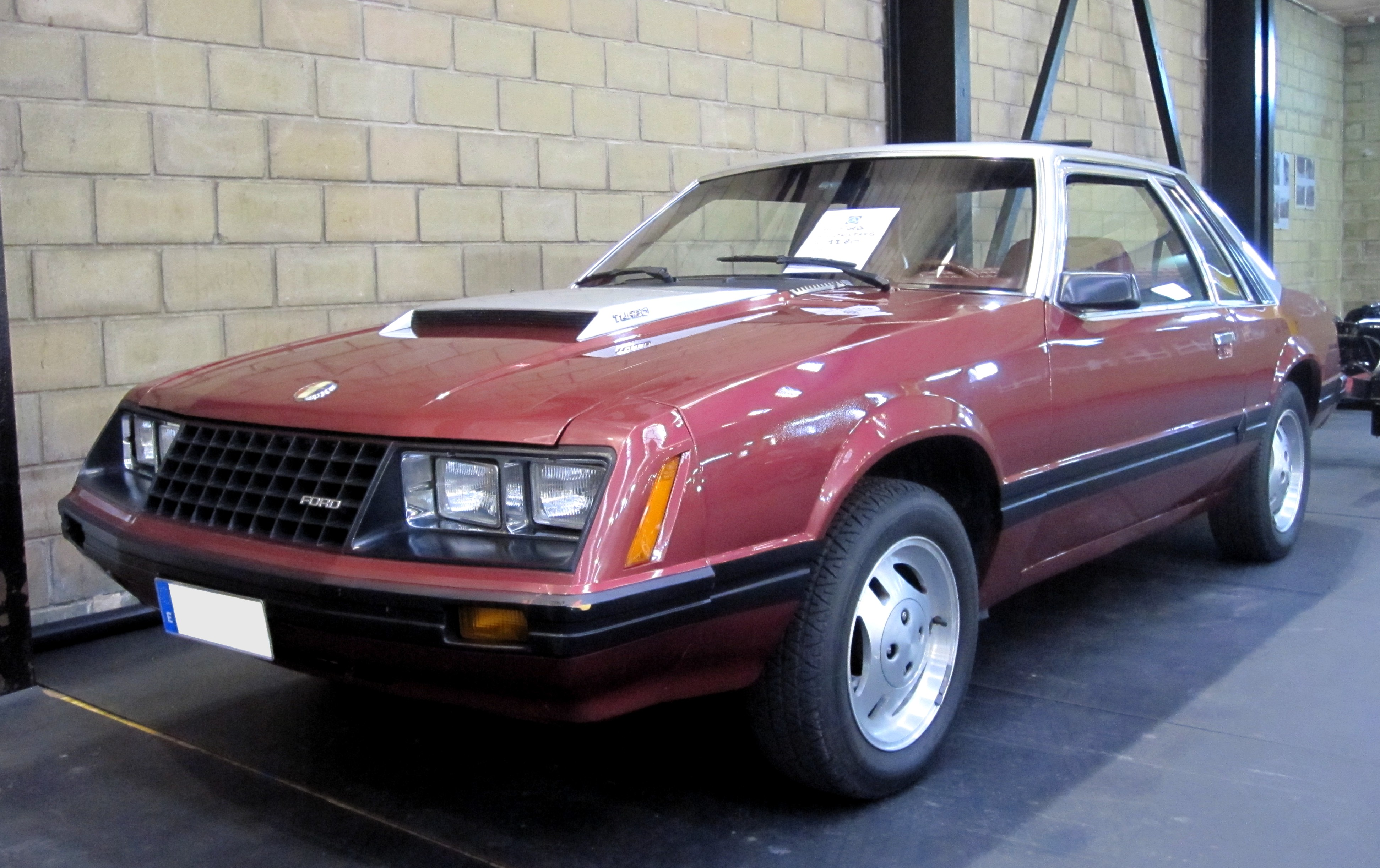 Plates from 2001. Imported that year I guess. 1980 was the pinpointed year on the windscreen sign.